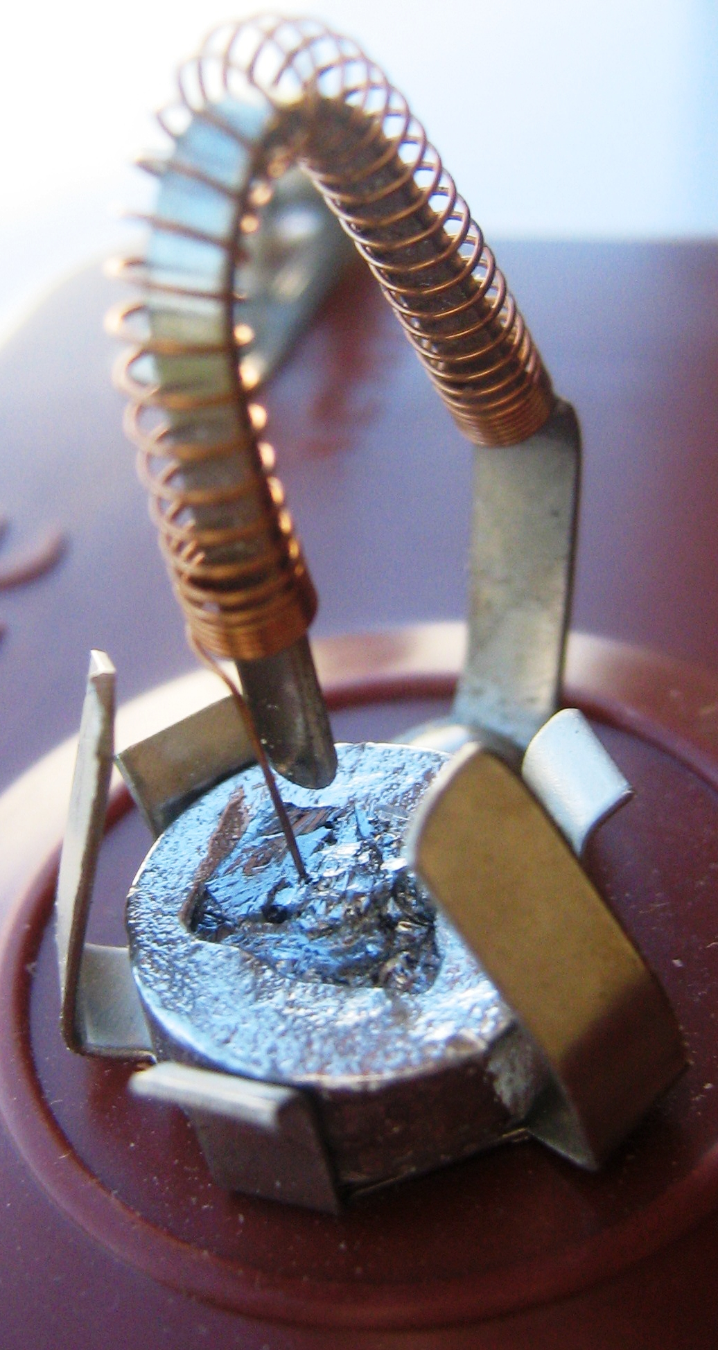 A cat's whisker detector, an antique electronic component used in crystal radio receivers from about 1906 to the 1940s. It consists of a mineral crystal, probably galena or silicon, embedded in solder in the metal cup at bottom. A fine wire attached to the adjustable mounting tab at top touches the surface of the crystal, forming a crude semiconductor diode. The function of this device in a crystal radio was to rectify the radio signal from the antenna, extracting the audio modulation signal from the carrier wave.